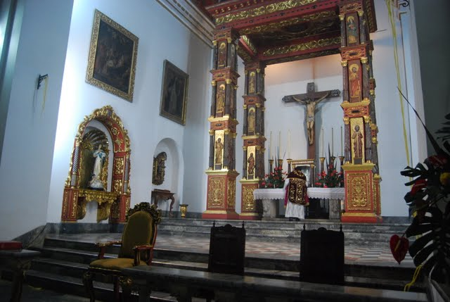 Capilla del sagrario